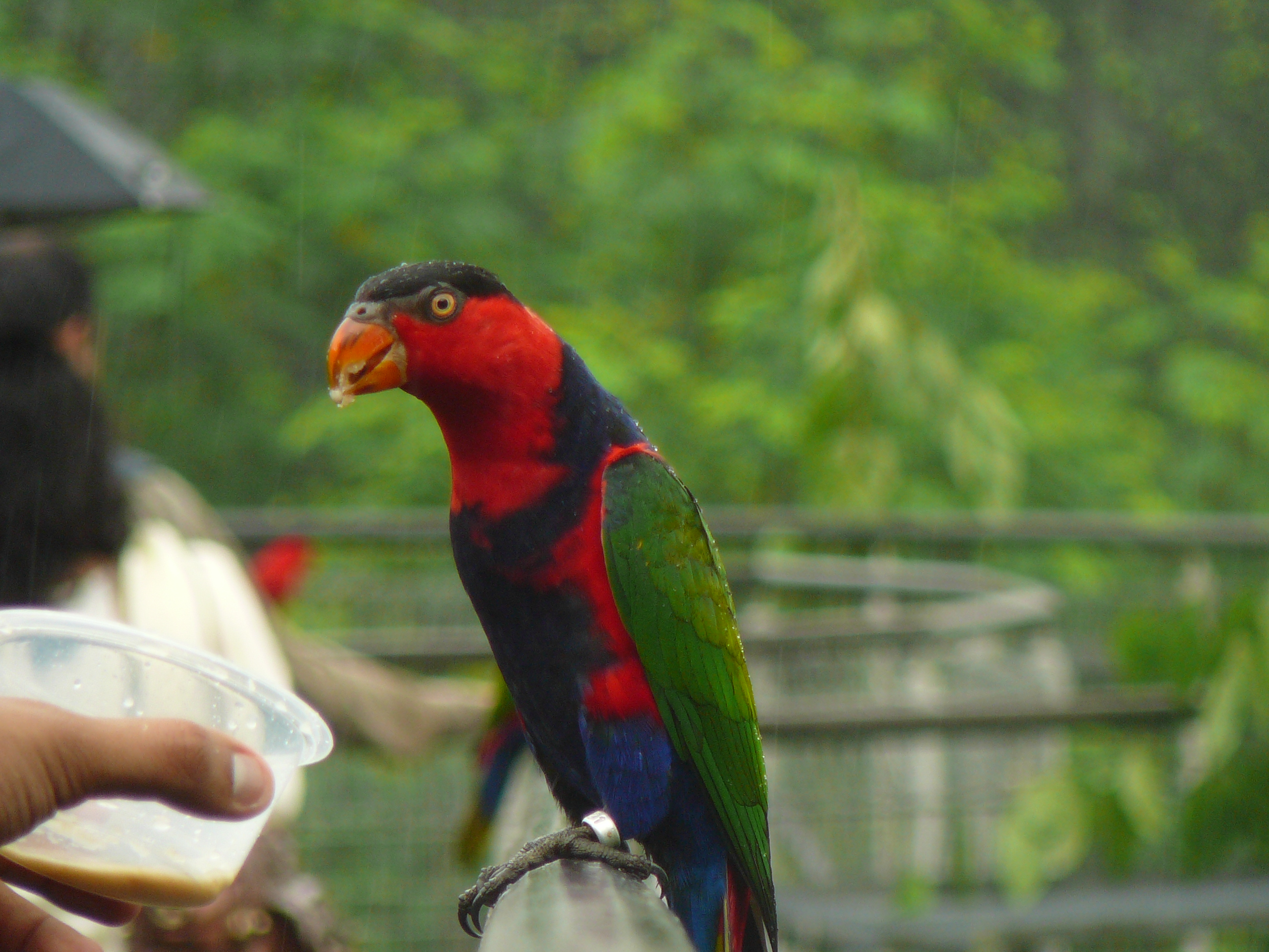 Black-capped Lory, also known as Western Black Capped Lory or the Tricolored Lory at Jurong BirdPark, Singapore.